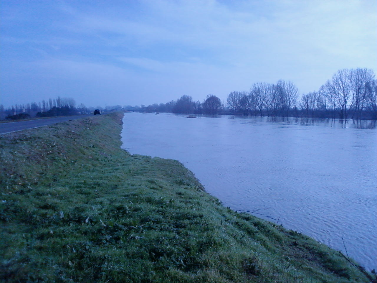 The flood of the Reno River (Emilia Romagna, Italy) near Molinella, in province of Bologna